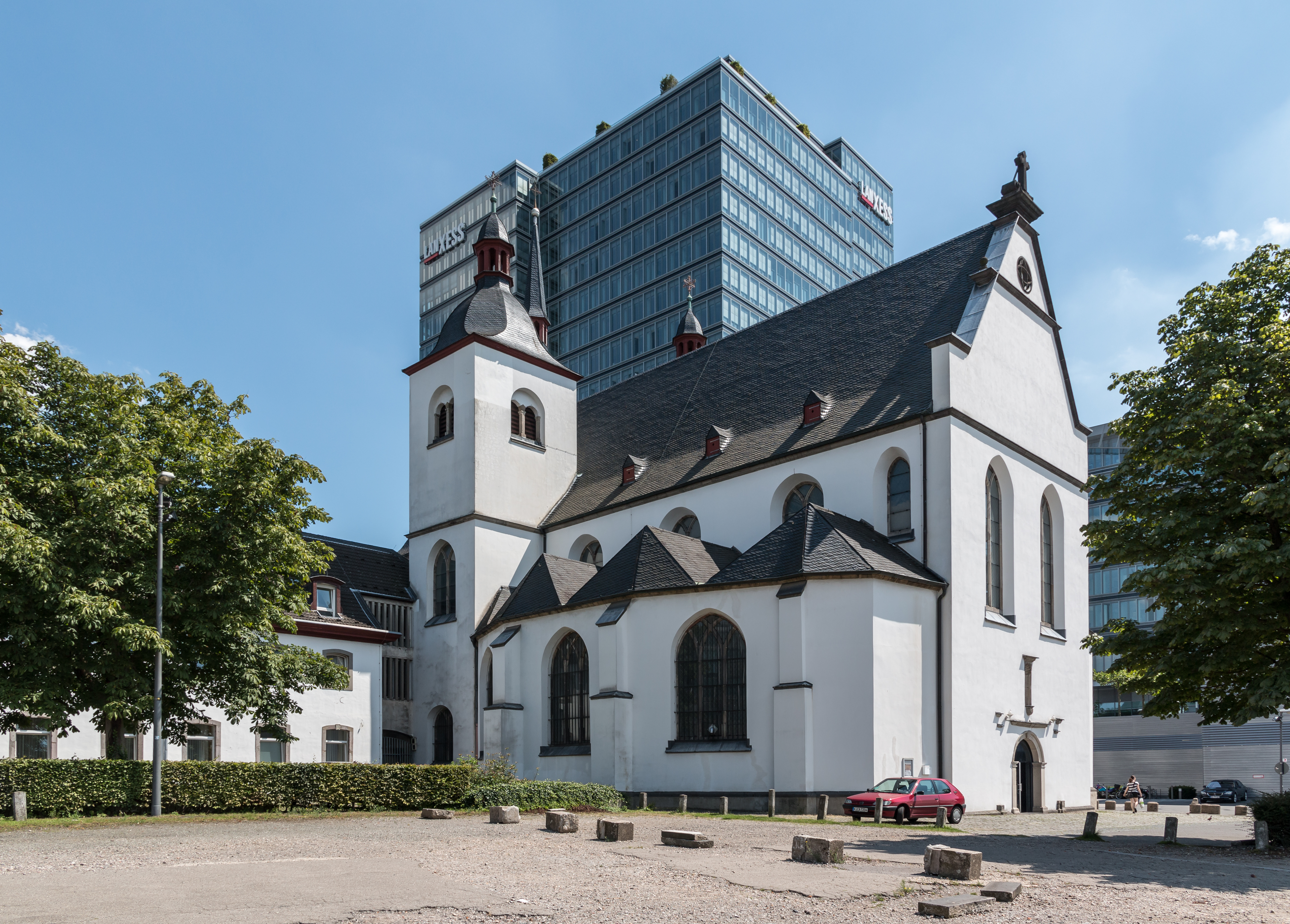 Alt St. Heribert, Cologne, North Rhine-Westphalia, Germany This image shows a heritage building in Germany, located in the North Rhine-Westphalian city Köln (no. 1092).